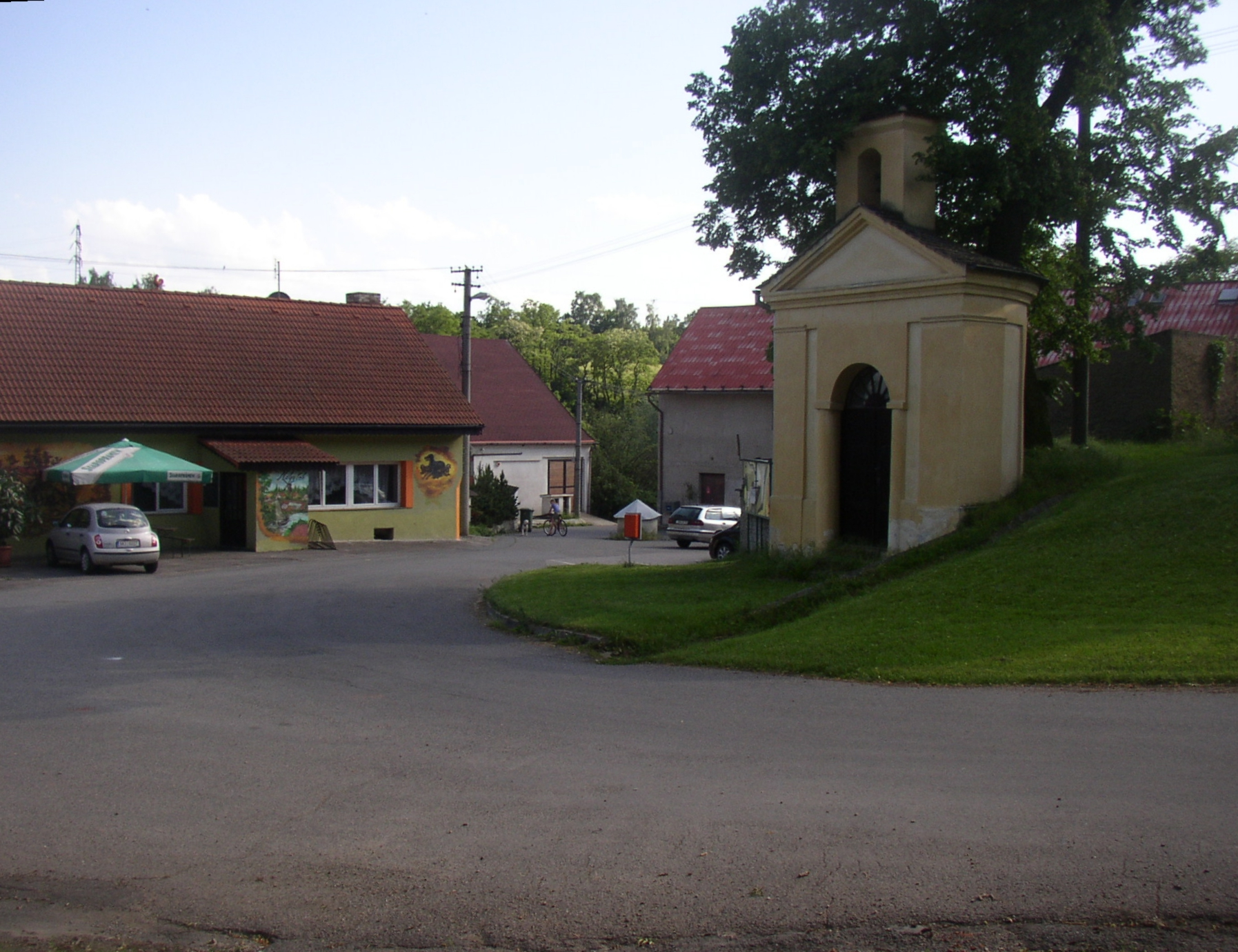 Common in village of Zájezd, Kladno District, Czech Republic. A view from the northeast.